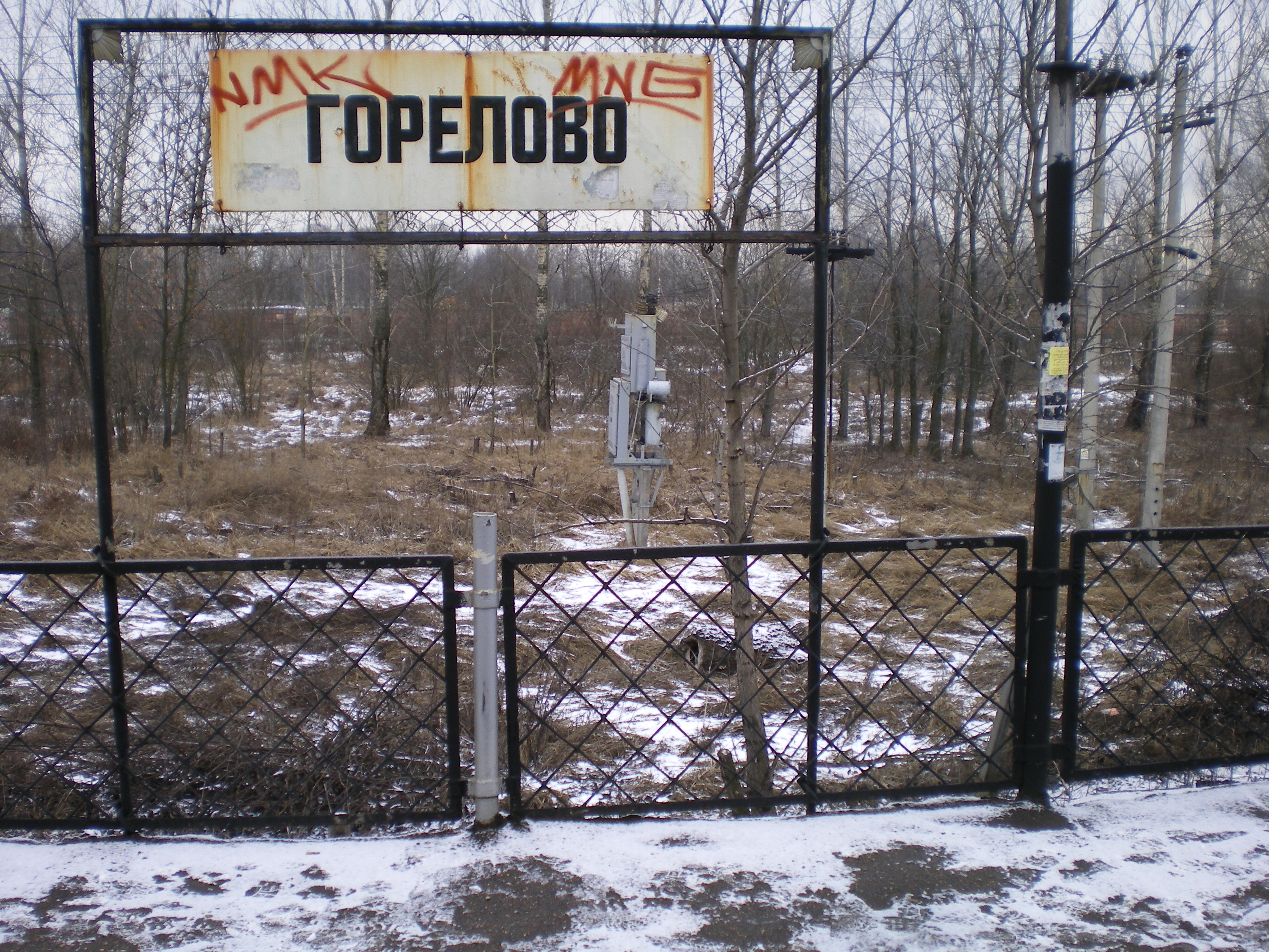 Gorelovo railway station in Saint Petersburg